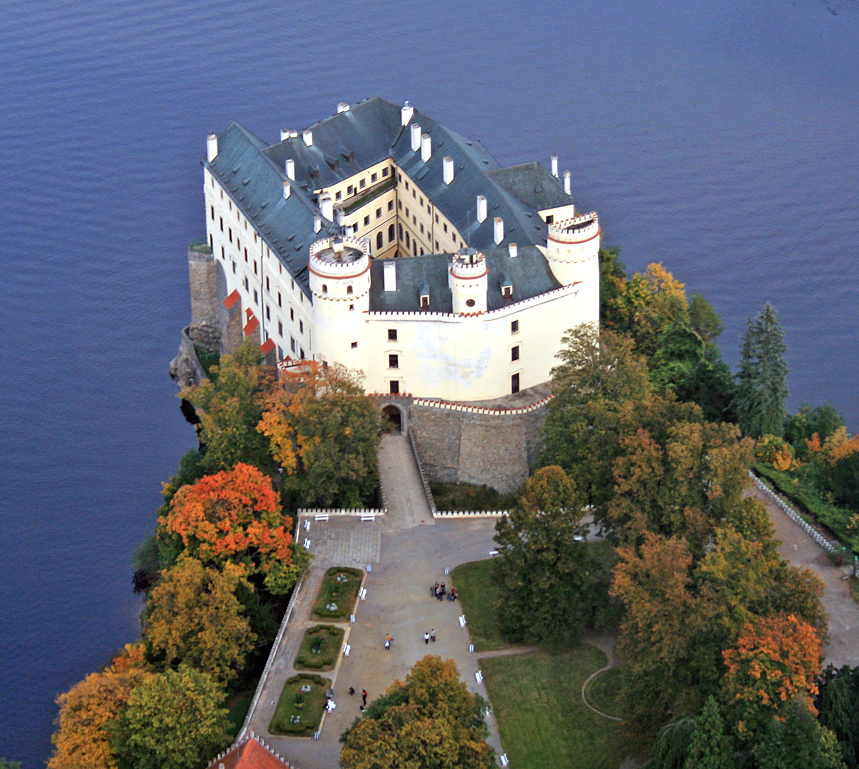 Air photo of Orlík Chateau on Orlík dam on Vltava river, the Czech Republic